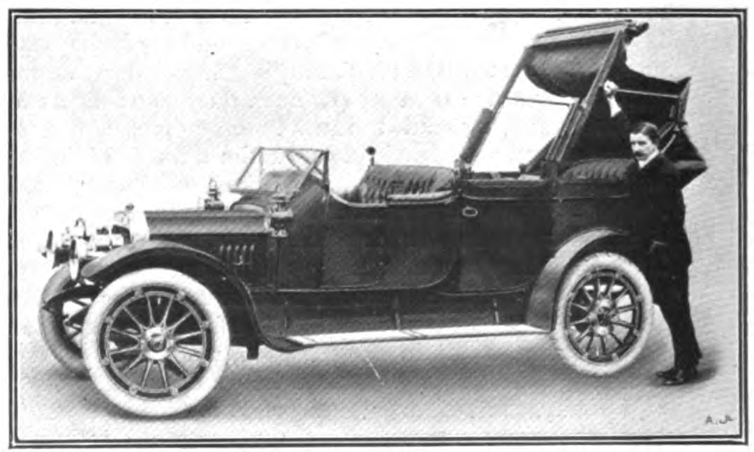 1912 Vauxhall Sutherland cabriolet on a 20(?) HP chassis The Vauxhall Sutherland cabriolet. The feature of this car is the hood which can be raised or lowered from the outside in five seconds. Either up or down the hood is prevented from rattling by the provision of springs by which it is held in tension. As a closed car it differs in no respect from an ordinary high class cabriolet.""